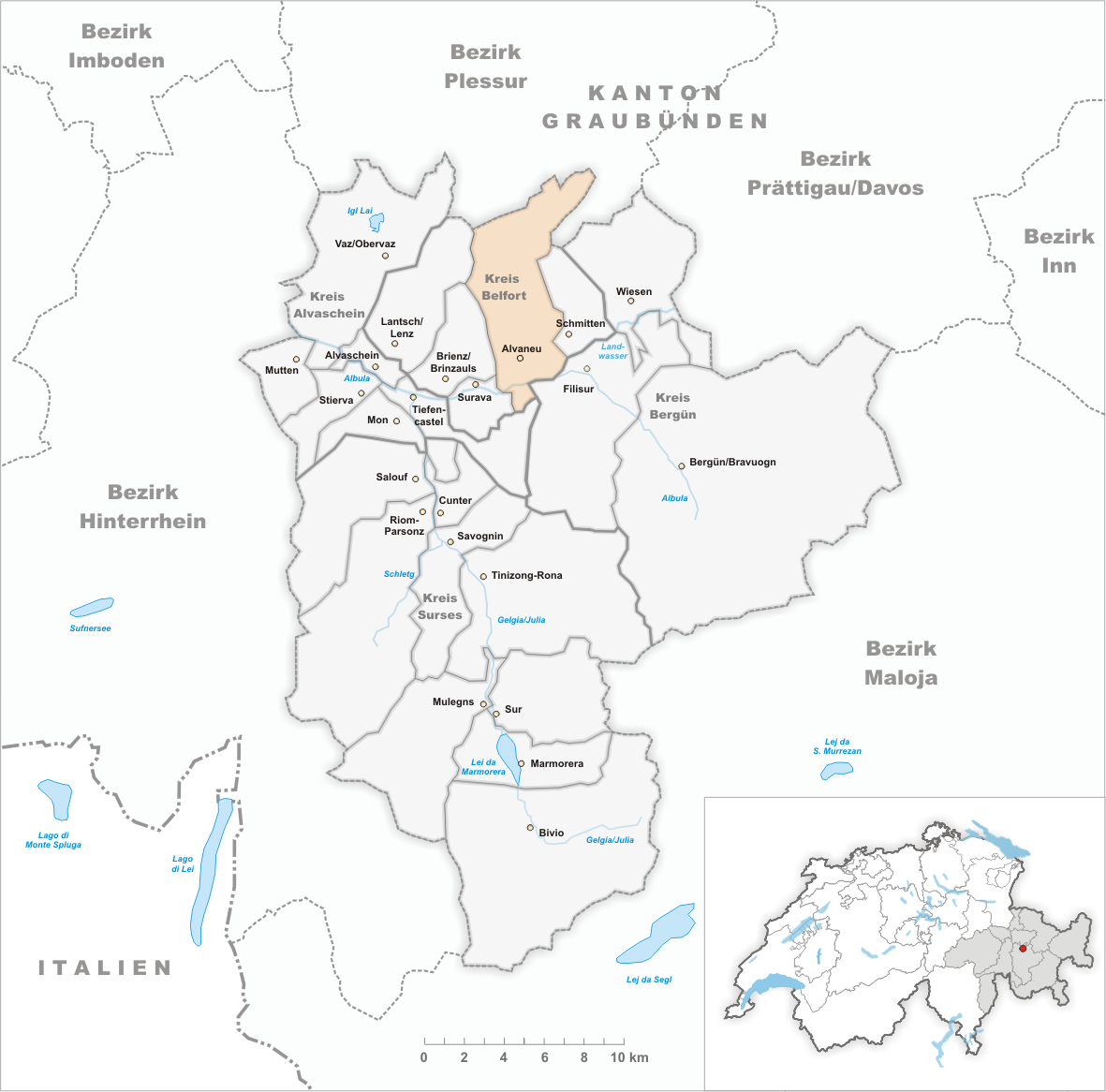 Municipality Alvaneu